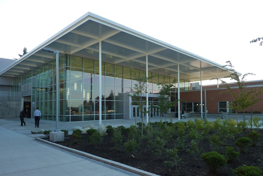 Main entry of the new school completed in 2011.